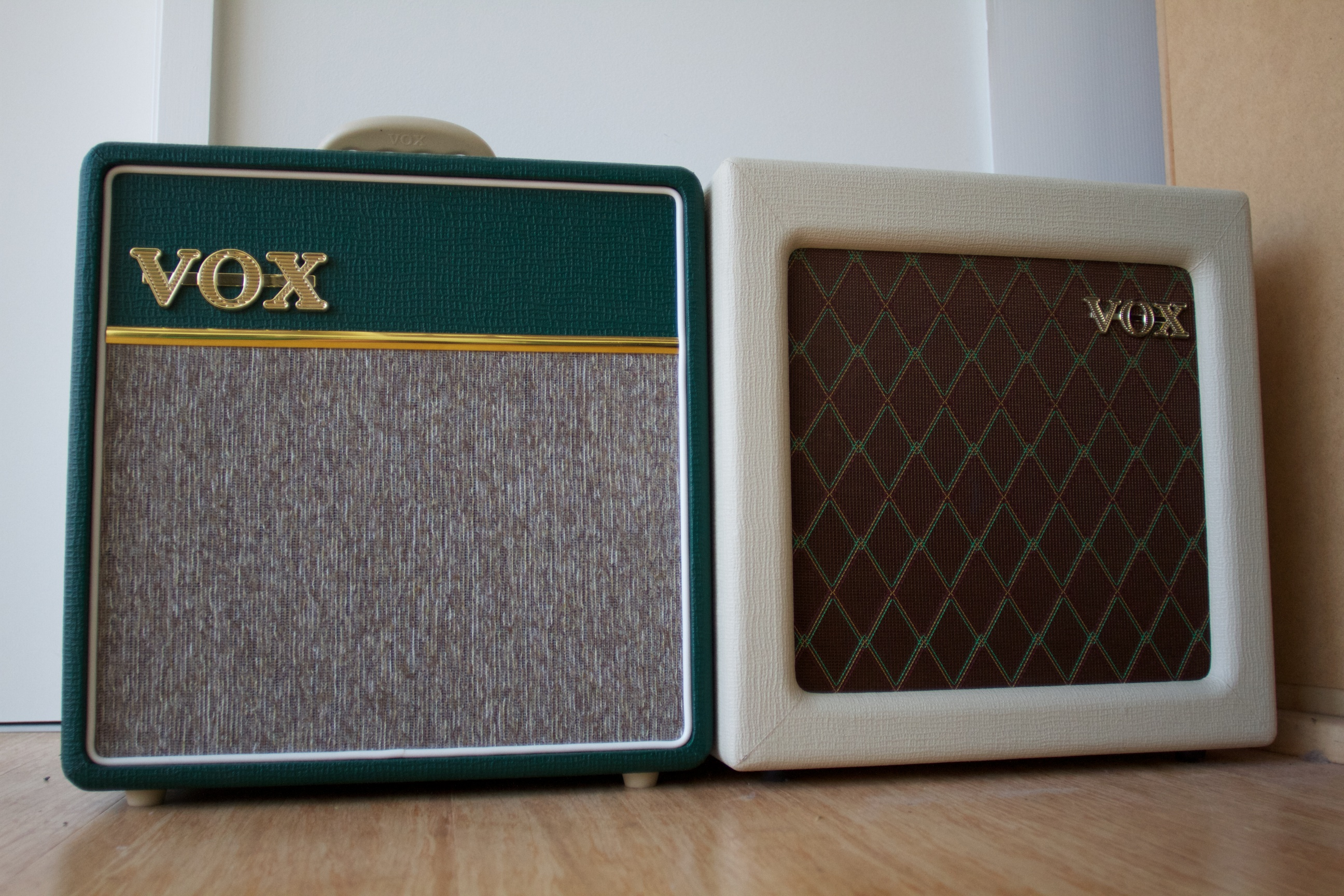 A pair of mini vox amps VOX AC4 (left, may be) & AC4TV (right) mini amps Each amp is about 4 watts of tube output, but they sound different due to their tone circuits.